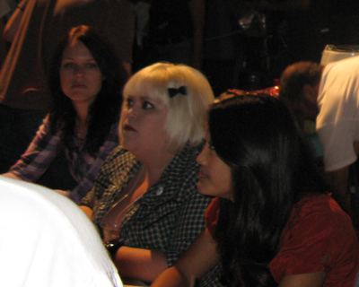 Cast members of The Guild signing merchandise - Blizzcon 2009